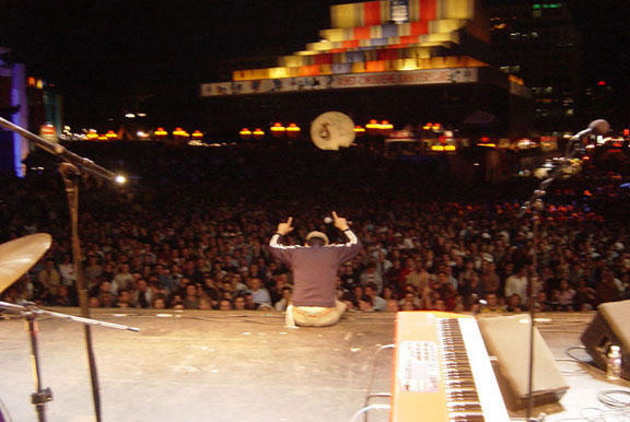 Kokolo Afrobeat Orchestra live at the Montreal Jazz festival